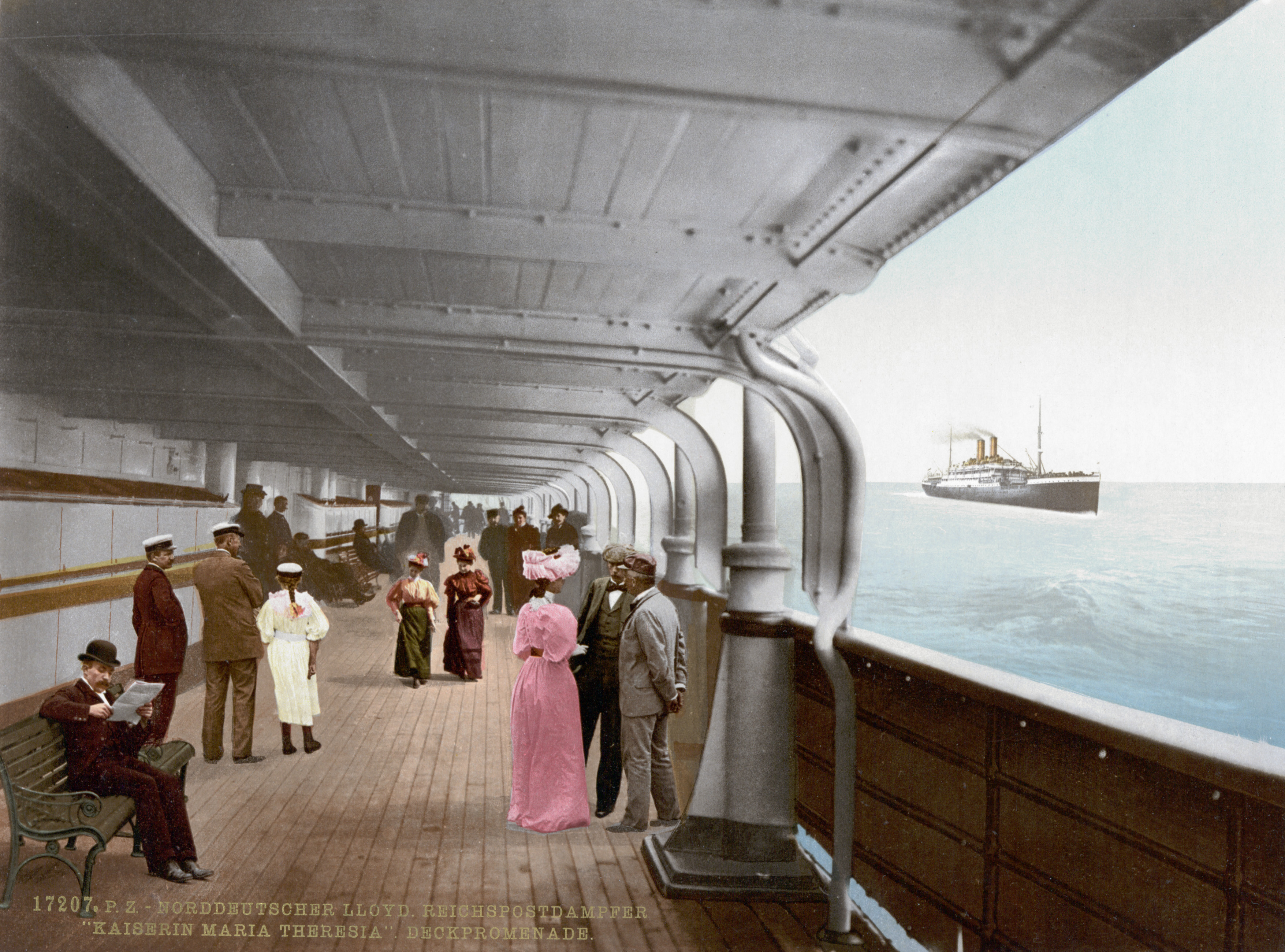 Postcard of SS Kaiserin Maria Theresia's promenade deck Print no. "17207" also available through Flickr